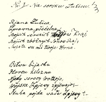 Handwriting of the Sorbian anthem „Rjana Łužica” by Handrij Zejler (1804–1872)